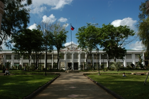 The provincial capitol in Dipolog City, Zamboanga del Norte, Philippines